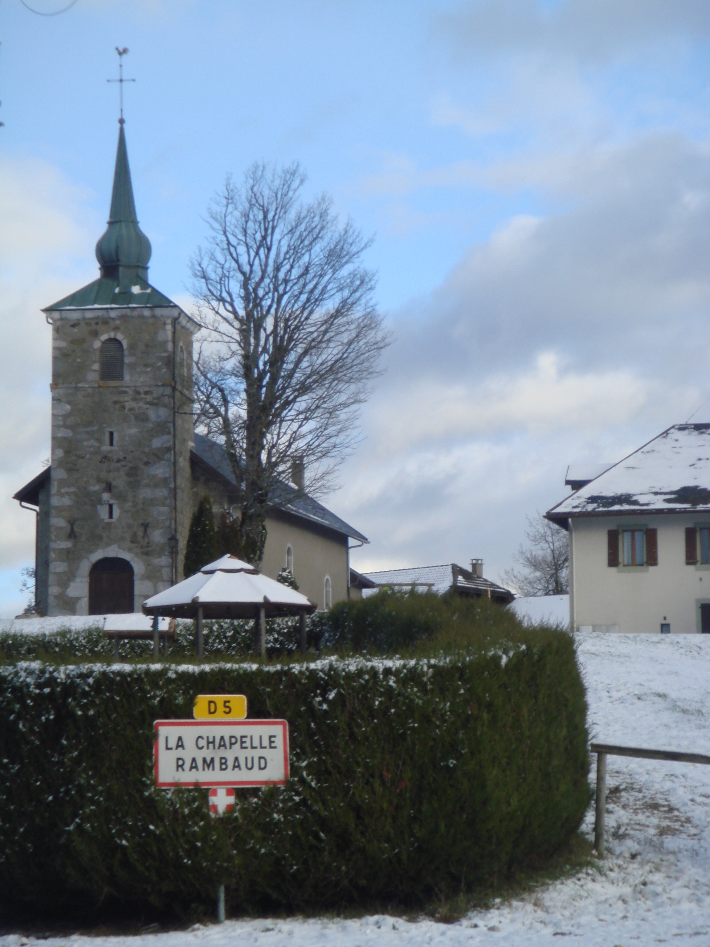 Picture of the west entry point of the village.